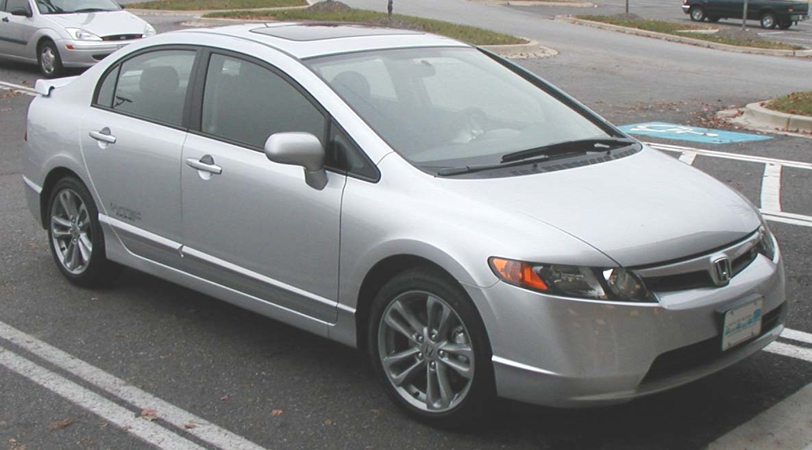 2007 Honda Civic Si sedan photographed in USA.